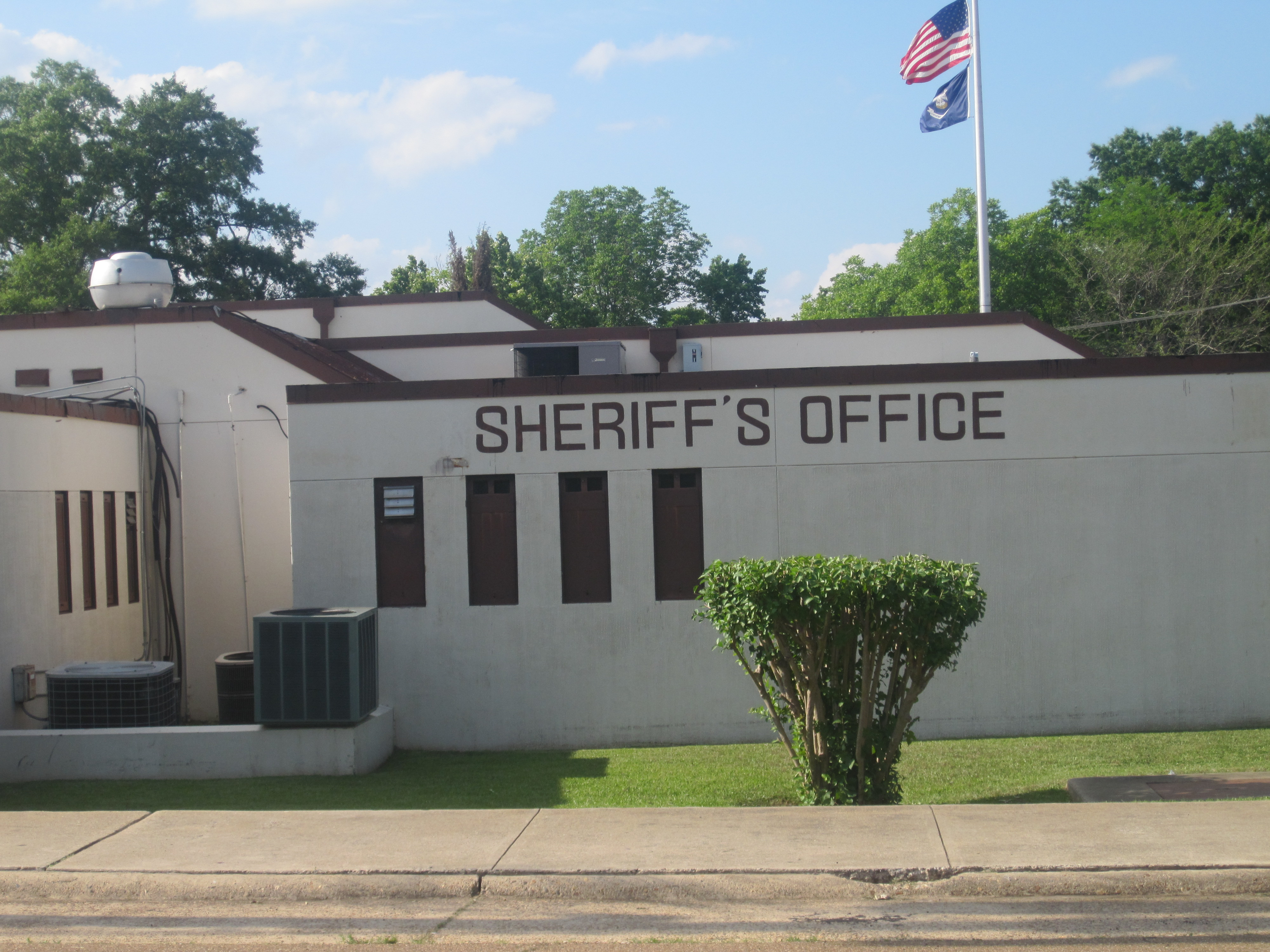 I took photo on May 22 in Homer, LA, with Canon camera.